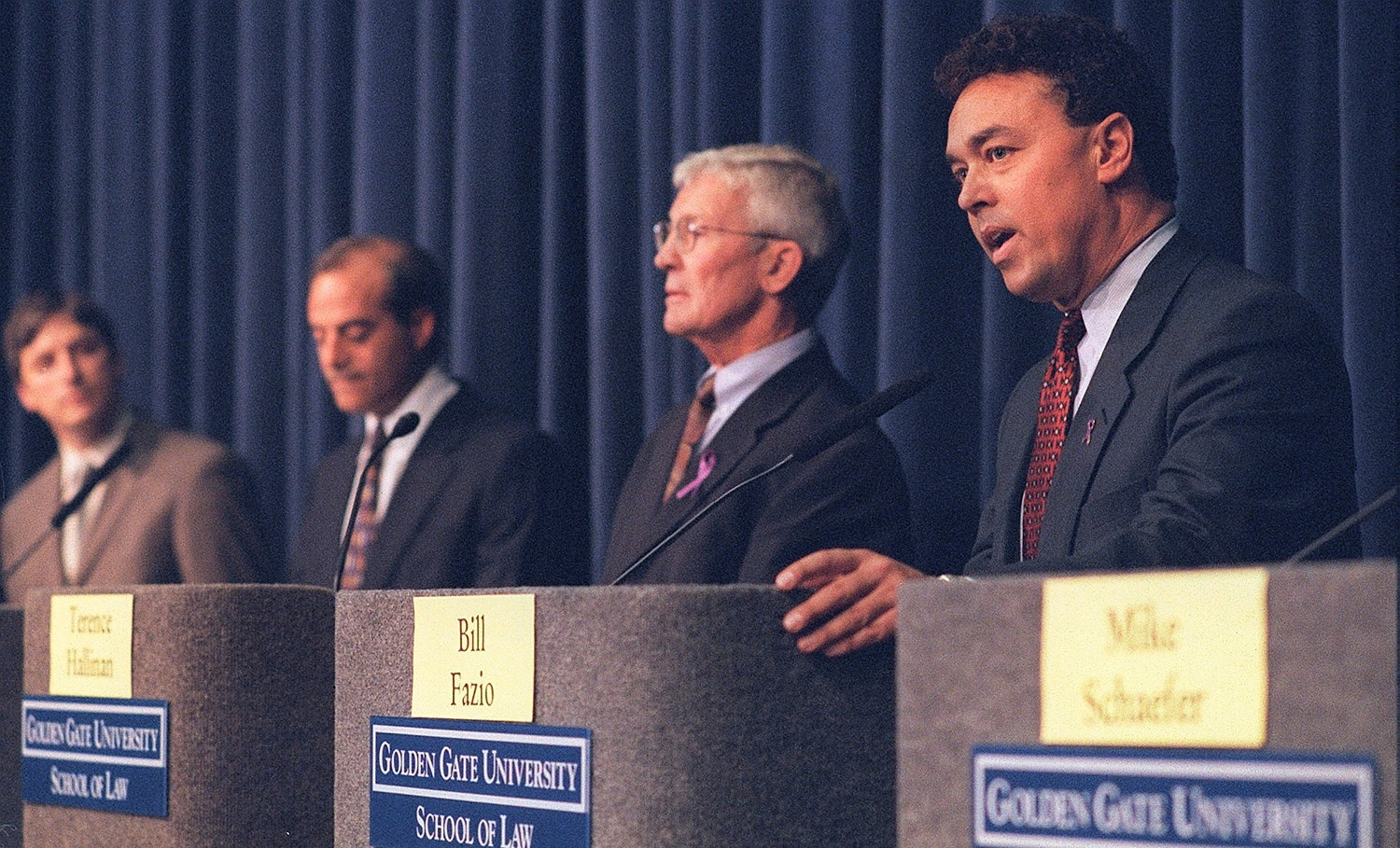 Bill FAZIO/C/08OCT99//NANCY WONG BILL FAZIO, CANDIDATE FOR SF DISTRICT ATTORNEY, DEBATES THE OTHER CANDIDATES, MATT GONZALEZ, STEVE CASTLEMAN AND TERENCE HALLINAN (AND MIKE SCHAEFER, NOT PICTURED) AT THE GOLDEN GATE UNIVERSITY LAW SCHOOL ON MISSION & 1ST ST IN SAN FRANCISCO.